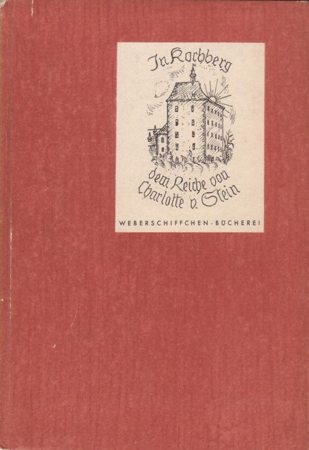 Frontcover of No. 15 of the series Weberschiffchen-Bücherei from 1936 (Leipzig, J.J. Weber publishers)